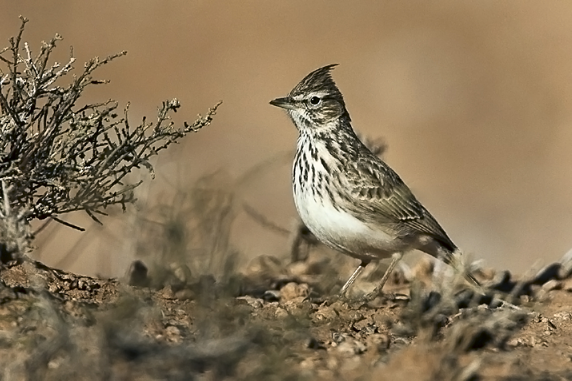 Thekla Lark - Marocco 07_3582